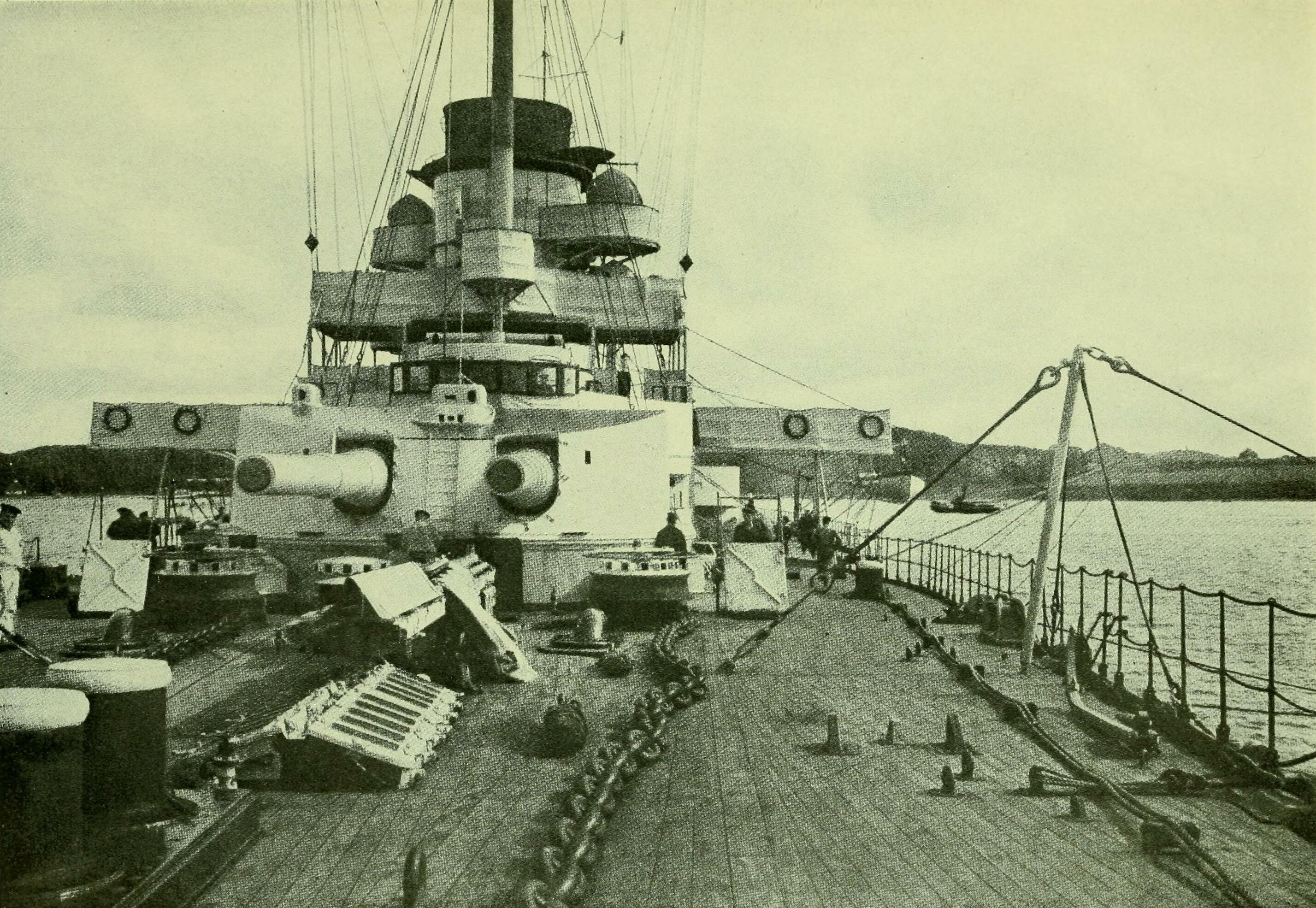 Battlecruiser SMS Goeben Title: Germany's fighting machine; her army, her navy, her air-ships, and why she arrayed them against the allied powers of Europe Year: 1914 (1910s) Authors: Henderson, Ernest F. (Ernest Flagg), 1861-1928 Subjects: Germany. Heer Germany. Kriegsmarine World War, 1914-1918 Publisher: Indianapolis, The Bobbs-Merrill company